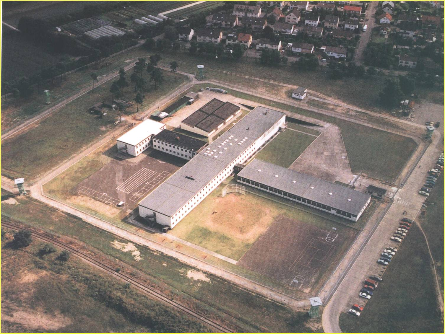 Aerial view of the United States Army Corrections Facility-Europe.